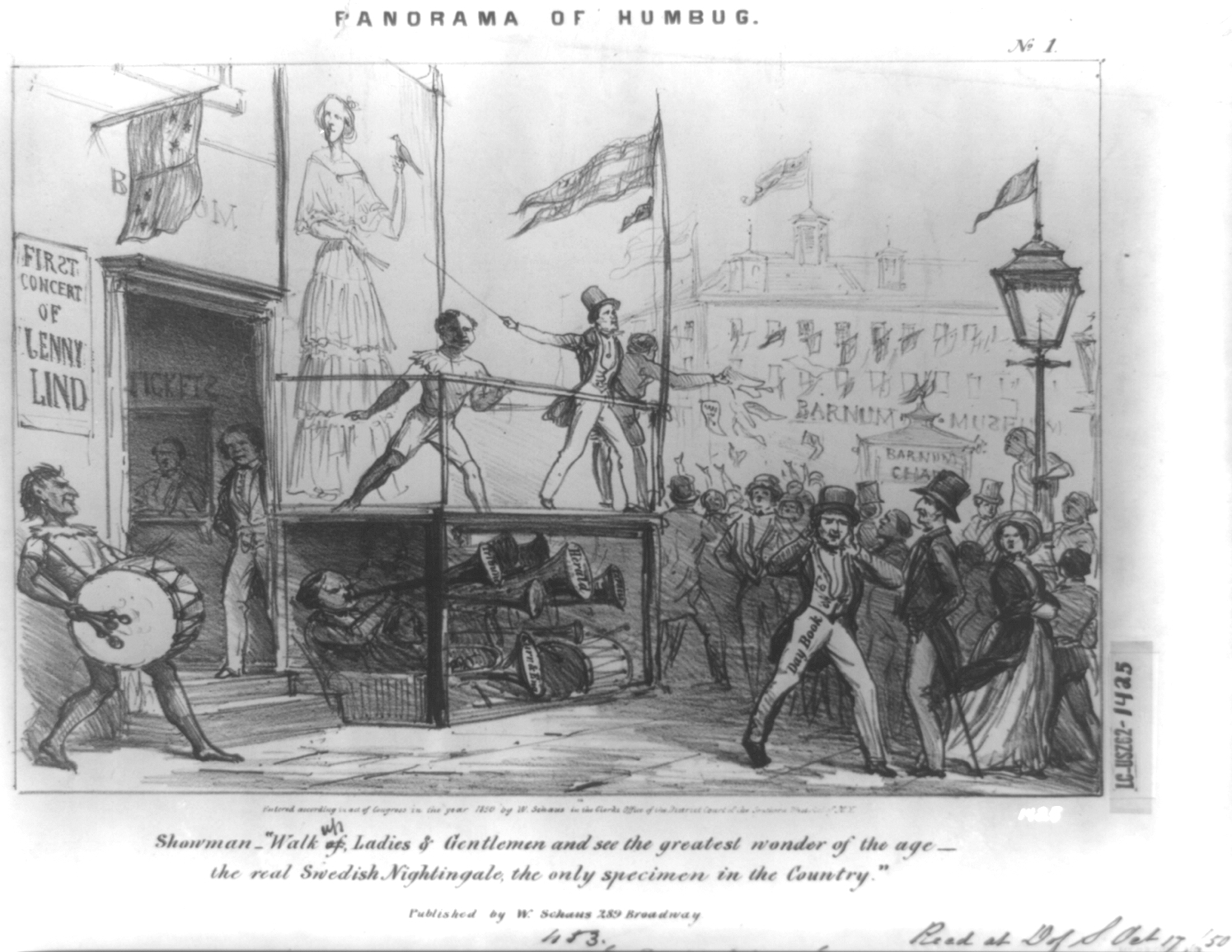 Parody of Jenny Lind's first American tour for P.T. Barnum, New York City, October 1850 Panorama of Humbug, engraving published by William Schaus 289 Broadway, New York, c1850. The artist parodies the extravagant publicity campaign conducted by showman Phineas T. Barnum for the series of American concerts by Swedish songstress Jenny Lind, which he produced in the autumn of 1850. Barnum started his promotion of Lind 6 months prior to her arriving in New York on September 1, 1850. On a small platform, beneath a massive banner with the image of Jenny Lind holding a fan and nightingale (a reference to her nickname "the Swedish nightingale"), stand a youth who is half white and half black, a showman, and a man throwing out handbills. The platform is erected outside a ticket office, and sits over a small orchestra pit with musicians blowing wind instruments with the names of several New York newspapers, including the "Tribune, Herald, Express," and "Courier and Enquirer." While a satanic figure to the left beats a drum, the showman shouts to the crowd around him: "Walk up Ladies & Gentlemen and see the greatest wonder of the age--the Real Swedish Nightingale, the only specimen in the Country." Inside the ticket office stands Barnum himself, quietly watching from the shadows. His Museum on Broadway can be seen in the background. Jenny Lind's first American concert was given in New York on September 11, 1850. This description with editions and edited digital image are from the Library of Congress, Reproduction Number LC-USZ62-1425, DIGITAL ID: (b&w film copy neg.) cph 3a05239